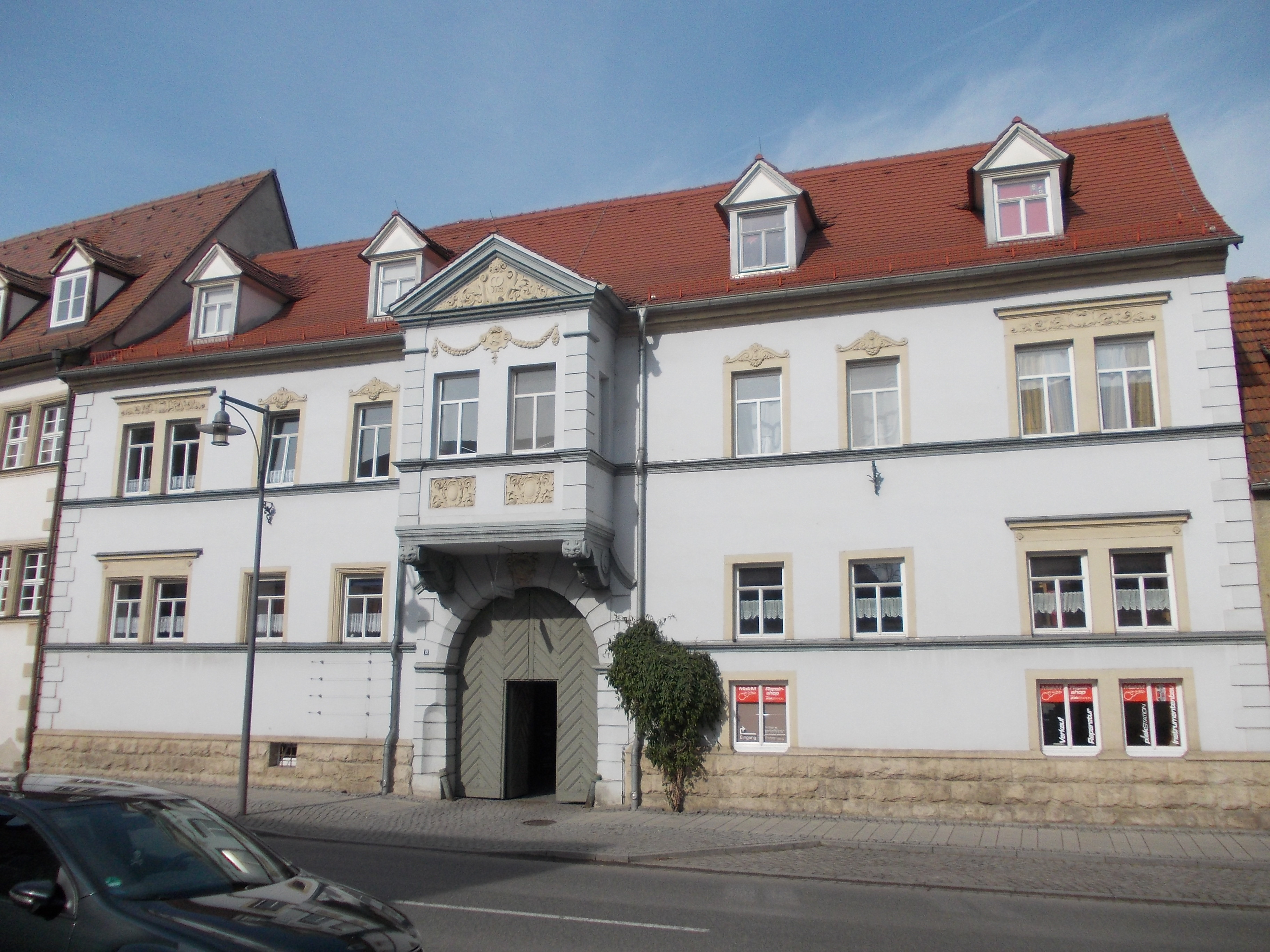 No. 10, Obere Hauptstrasse in Laucha an der Unstrut (district: Burgenlandkreis, Saxony-Anhalt)